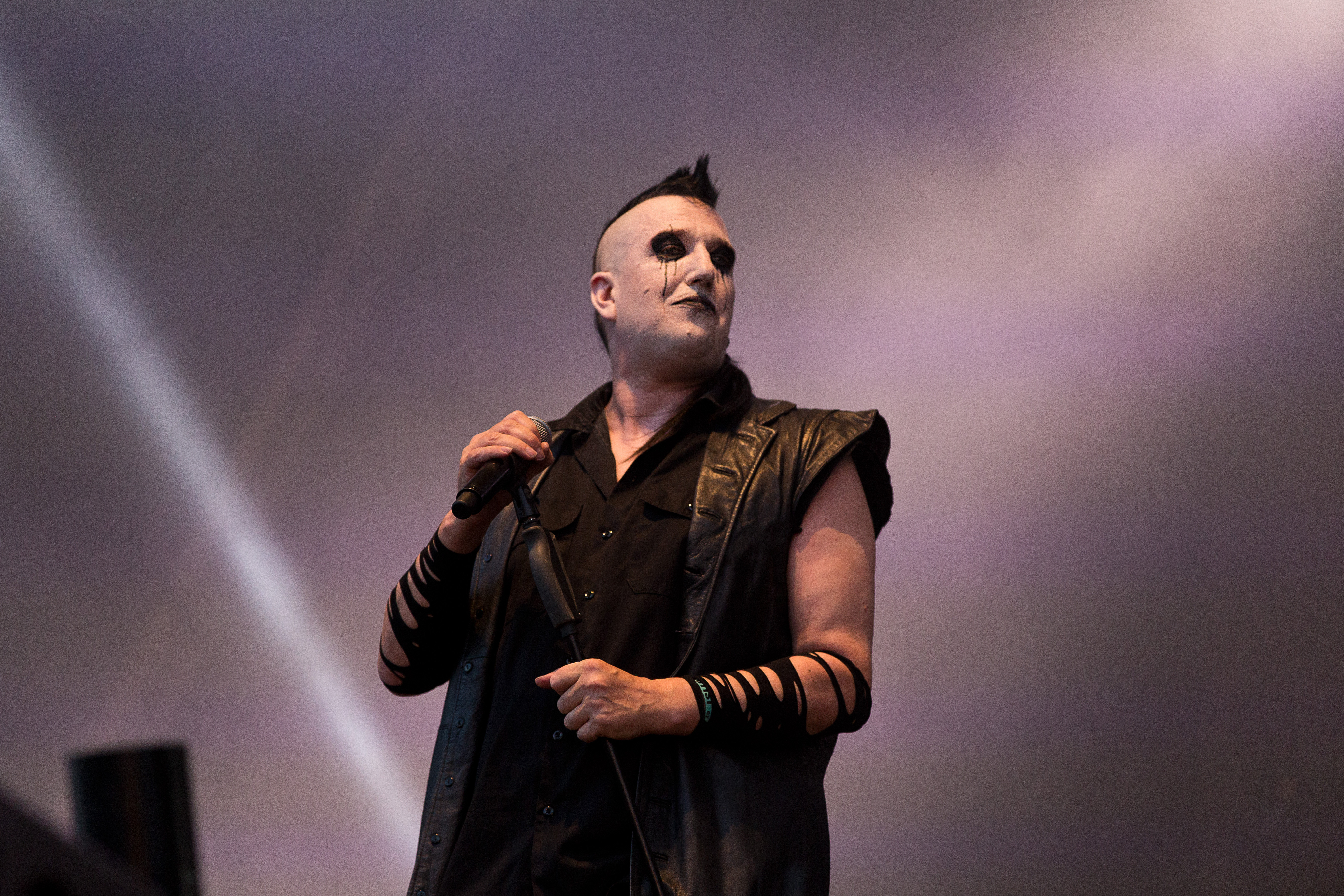 The German rock band ASP at the Rockharz Open Air 2016 in Ballenstedt/Germany.